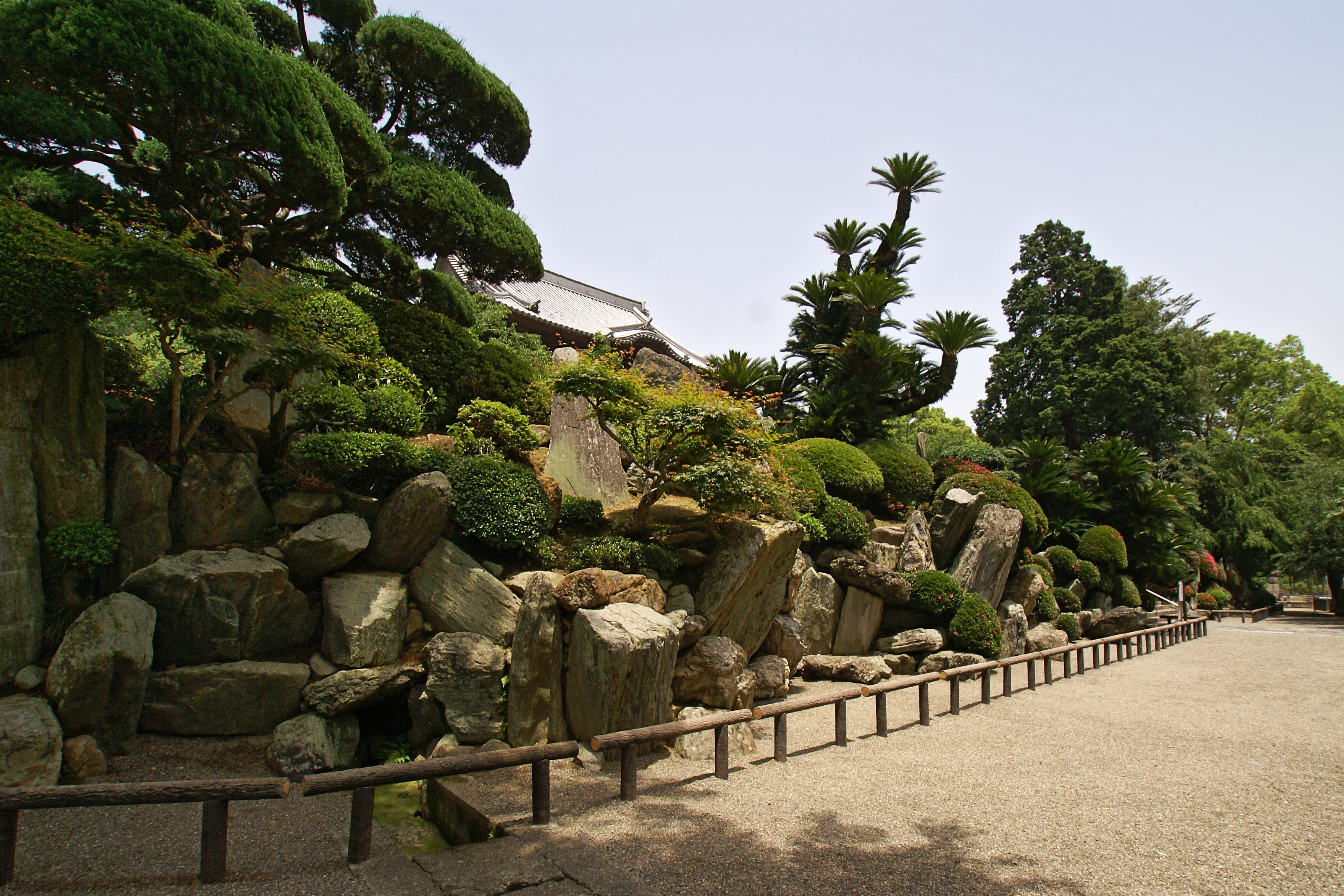 Kokawa-dera in Kinokawa, Wakayama prefecture, Japan